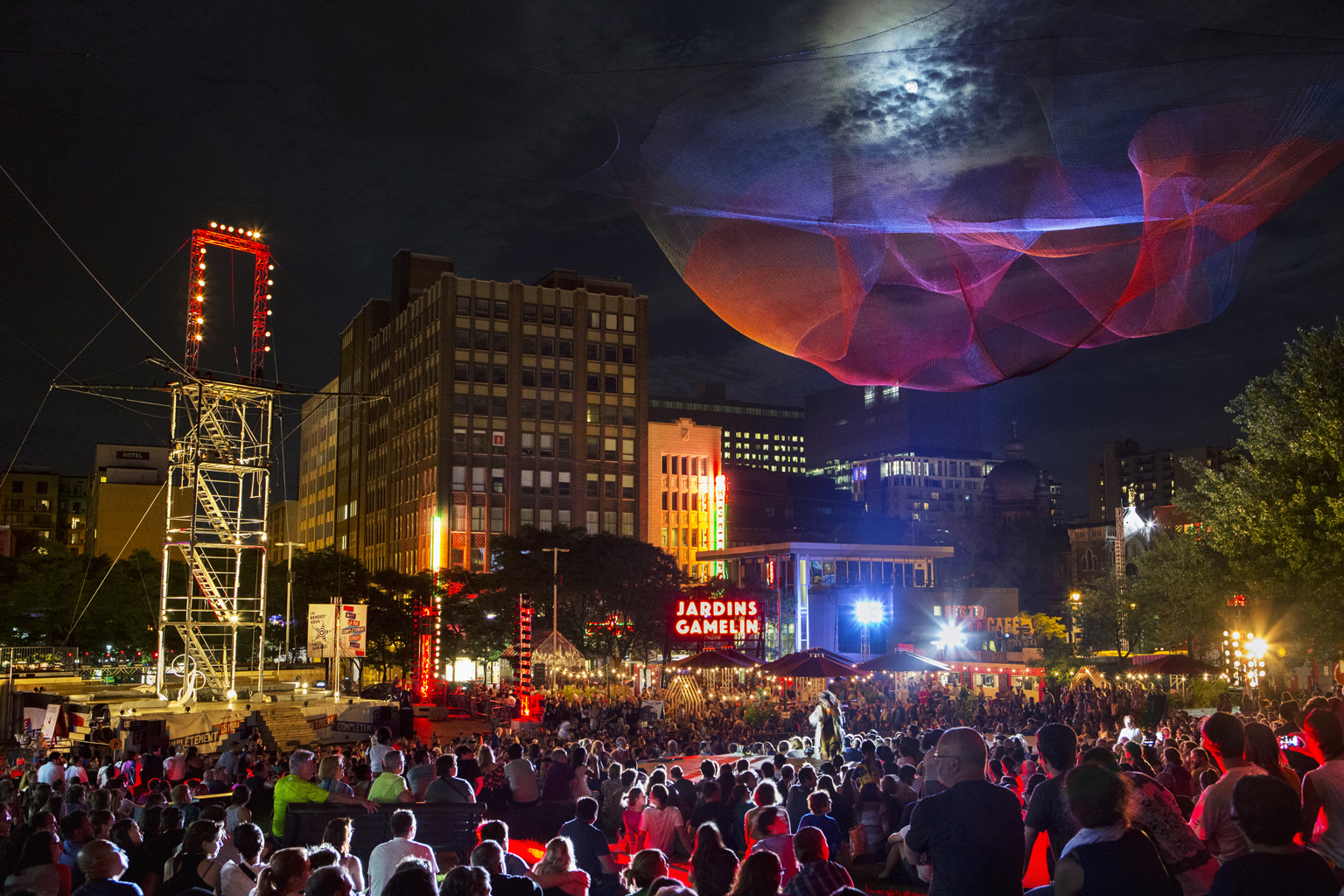 1.26 in Montreal, Quebec